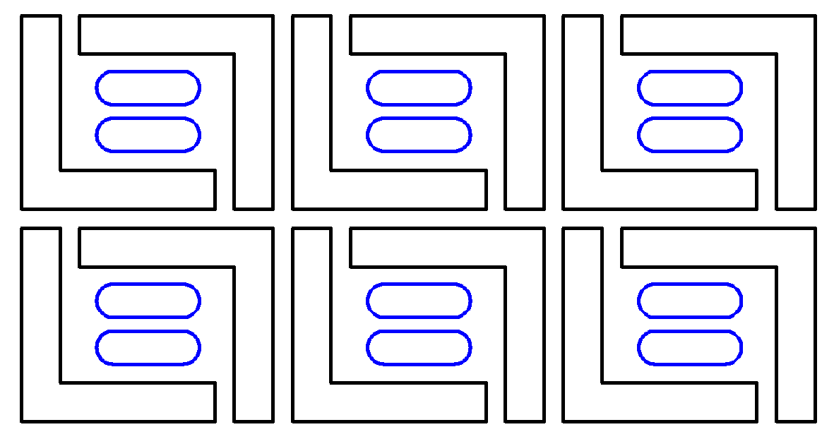 Optimized Nesting with copied and revolved and various parts